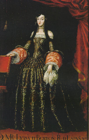 Portrait of Marie Louise of Orléans (1662–1689), Queen consort of Spain